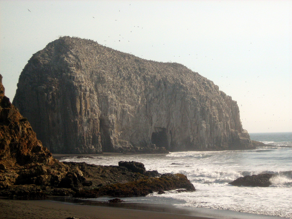 Church Rock, in Constitucion, Chile